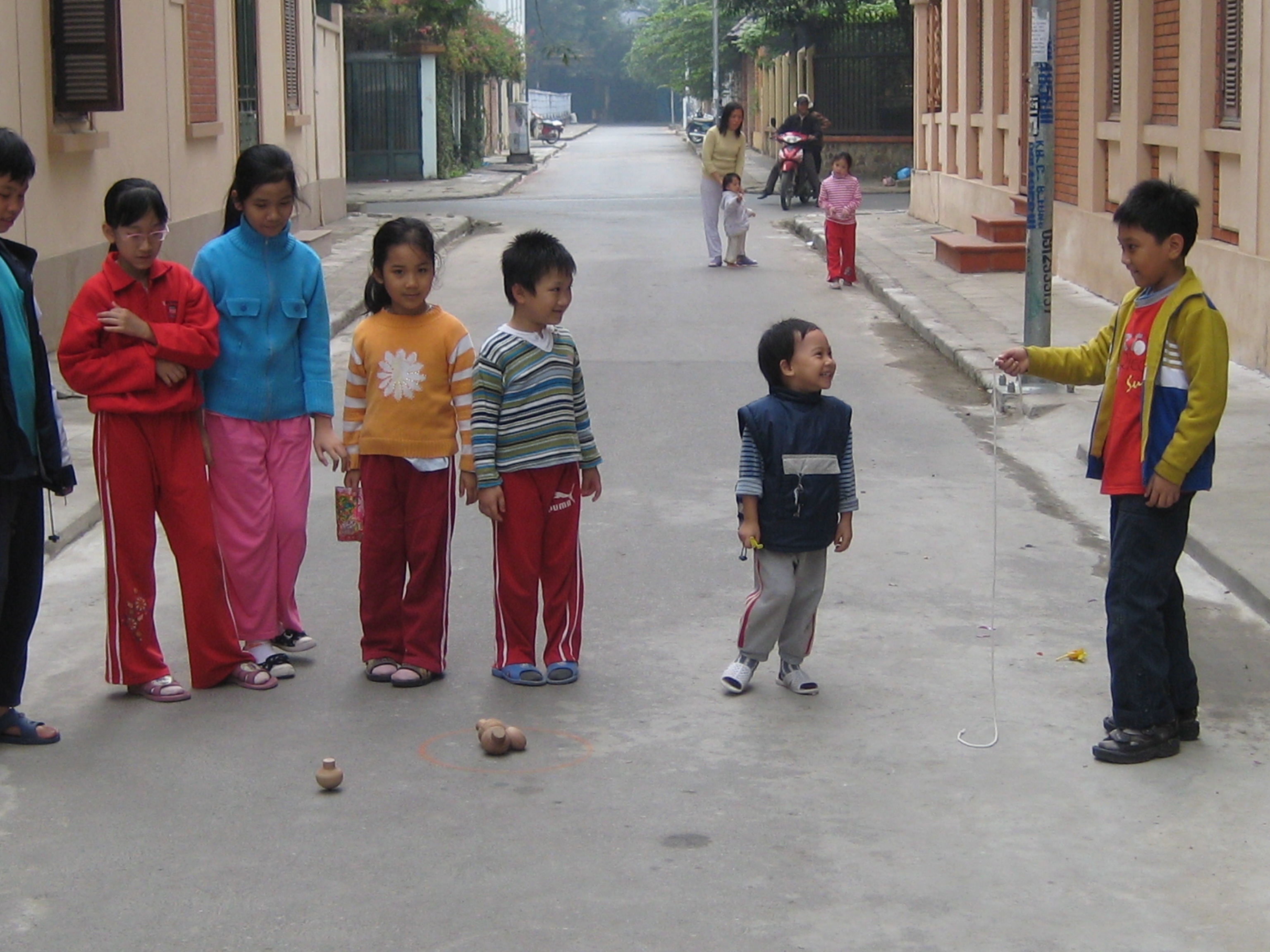 Topspinning, a Vietnamese traditional game.